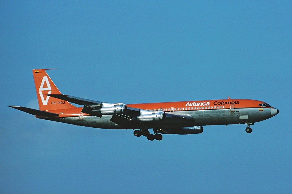 Avianca Boeing 707-359B (HK-1402 (cn 19741/681) Del 03/68) at Zurich (- Kloten) (ZRH / LSZH) Switzerland, April 1976